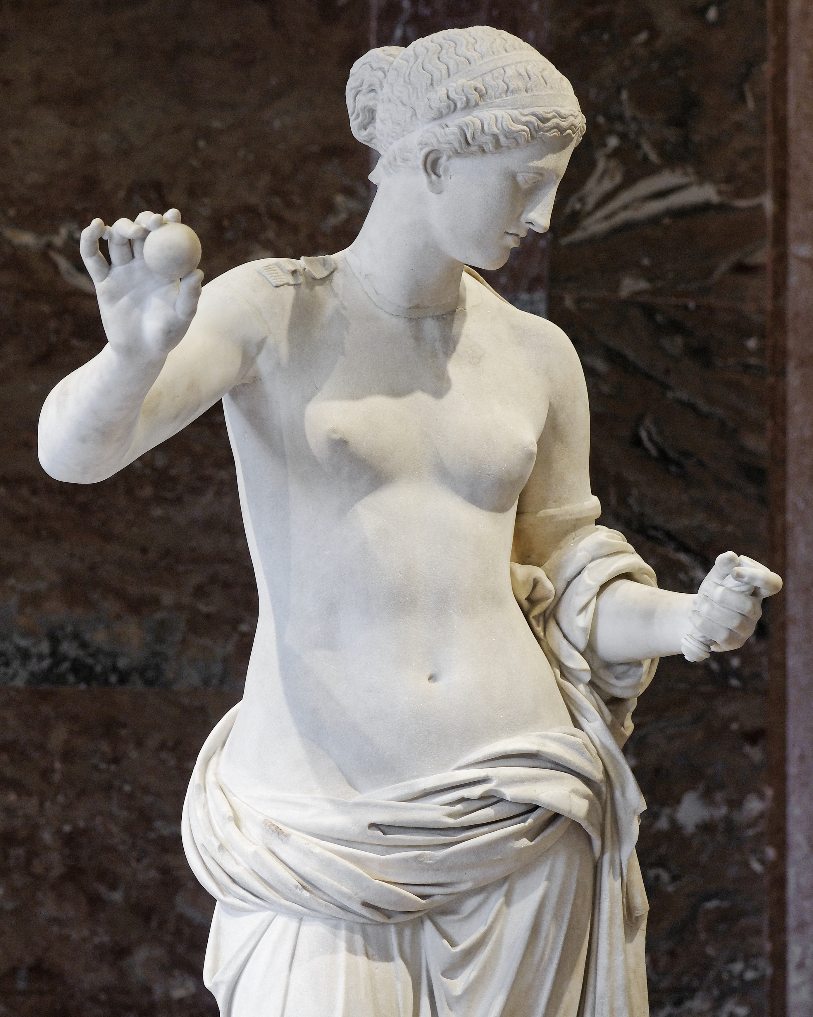 Statue of Aphrodite, known as the Venus of Arles. Hymettus marble, Roman artwork, imperial period (end of the 1st century BC), might be a copy of the Aphrodite of Thespiae by Praxiteles. The apple and the mirror were added during the 17th century. Found in the ancient theatre of Arles, France.